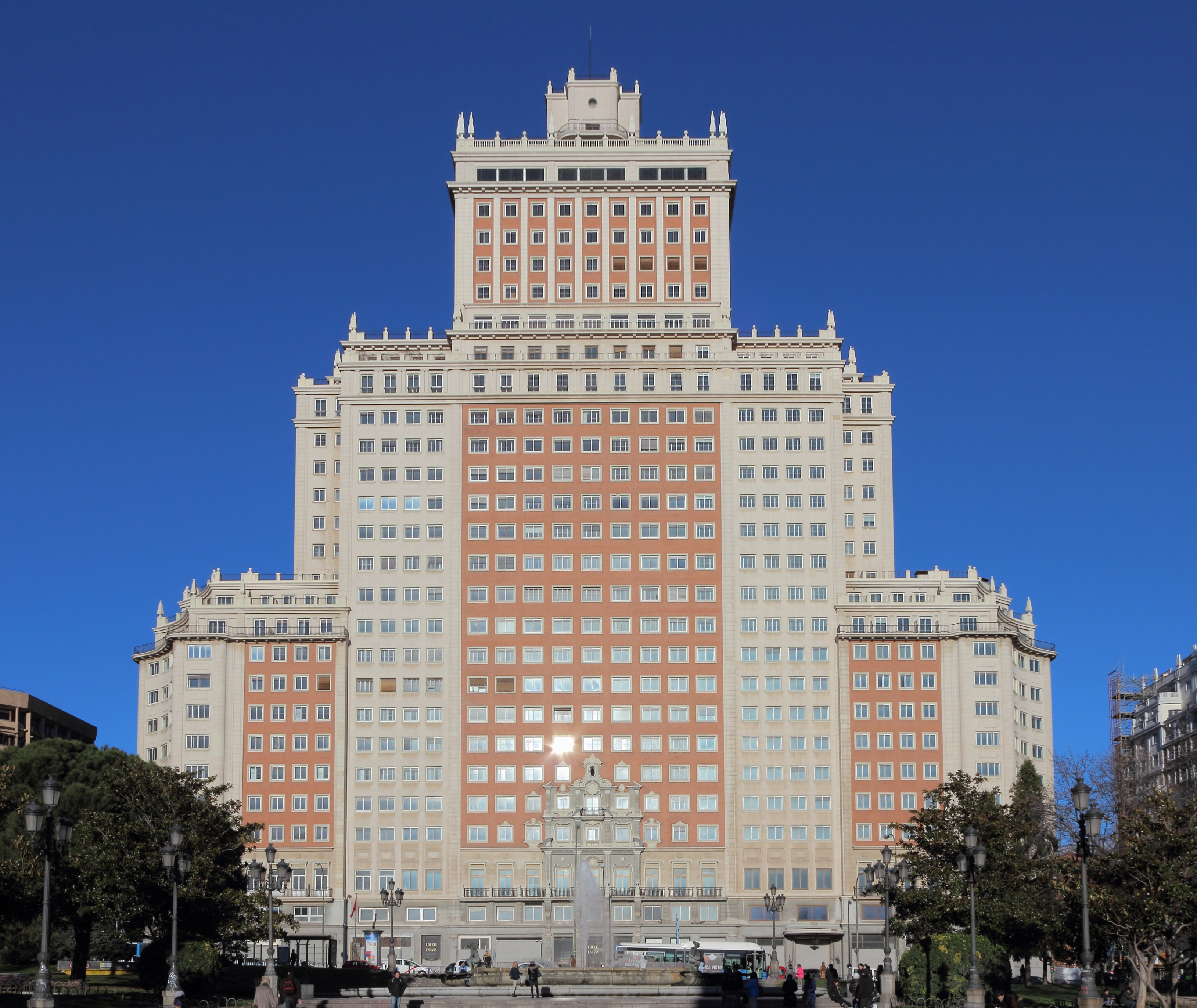 Edificio España